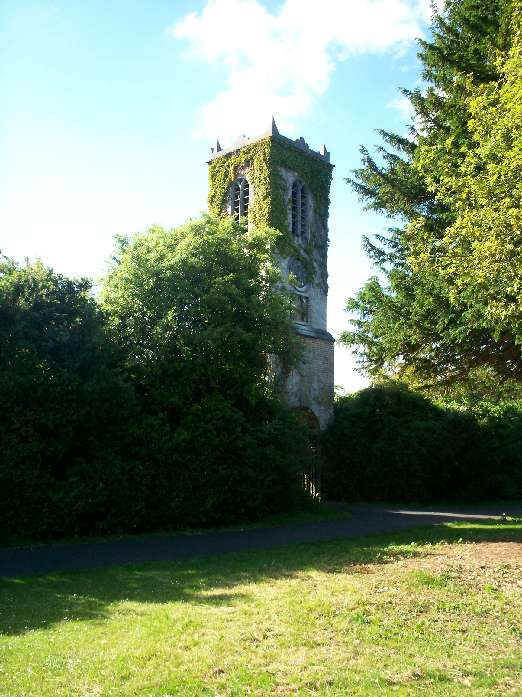 Another view of the clocktower in St Annes. Clocktower is perhaps the symbol of the park to most people who know it.